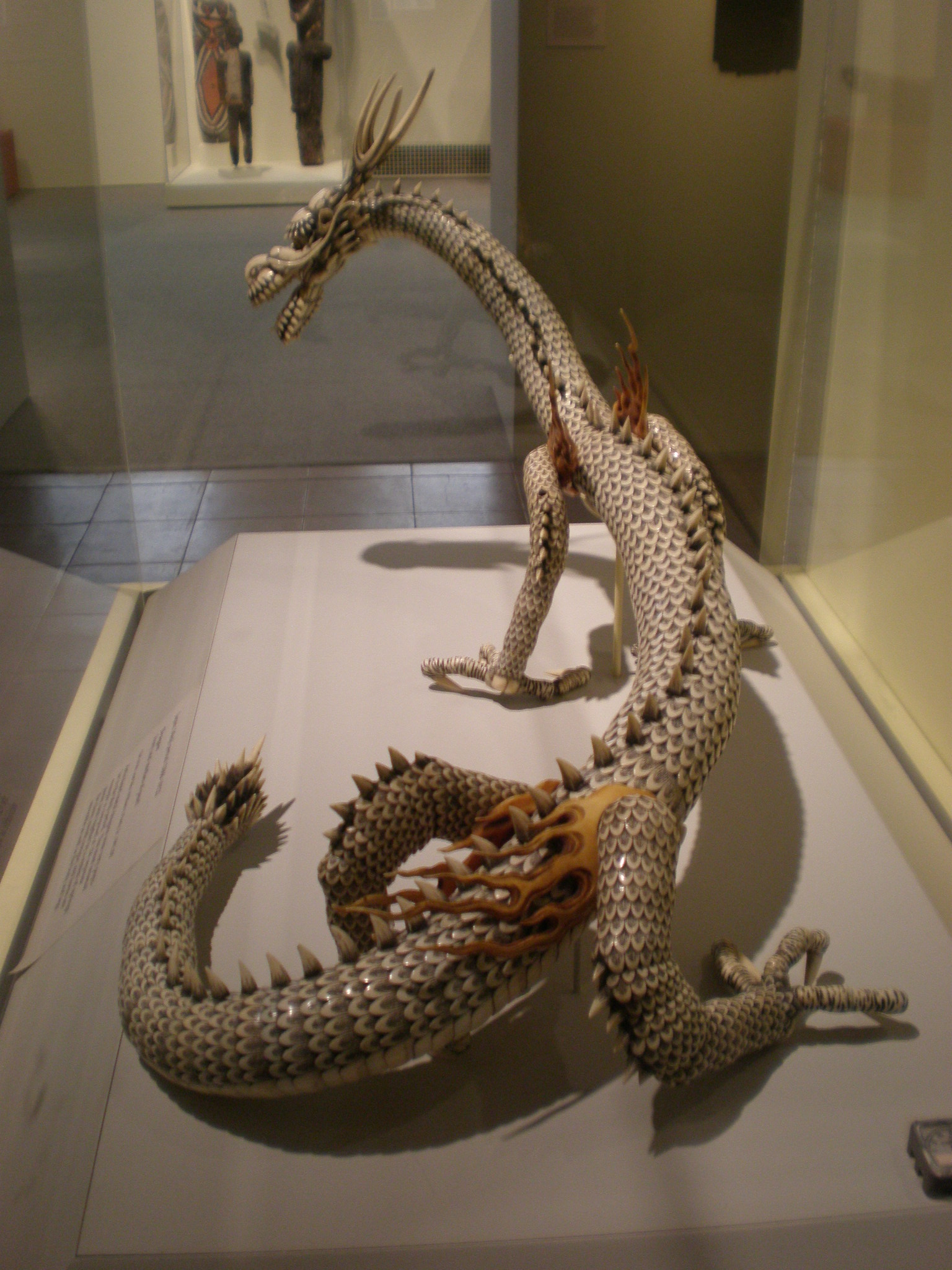 Articulated Meiji period dragon made of metal, ivory and mother of pearl on display at the Iris & B. Gerald Cantor Center for Visual Arts on the Stanford University campus in Stanford, California.